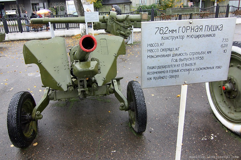 76,2-mm soviet mountain gun M1958 (M-99, GRAU index - 2A2). Motovilikha Plants museum in Perm Russia.